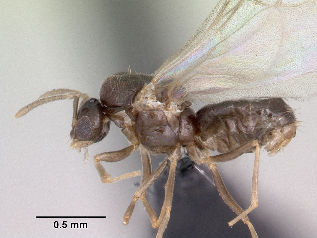 Profile view of ant Brachymyrmex cordemoyi specimen casent0057420.